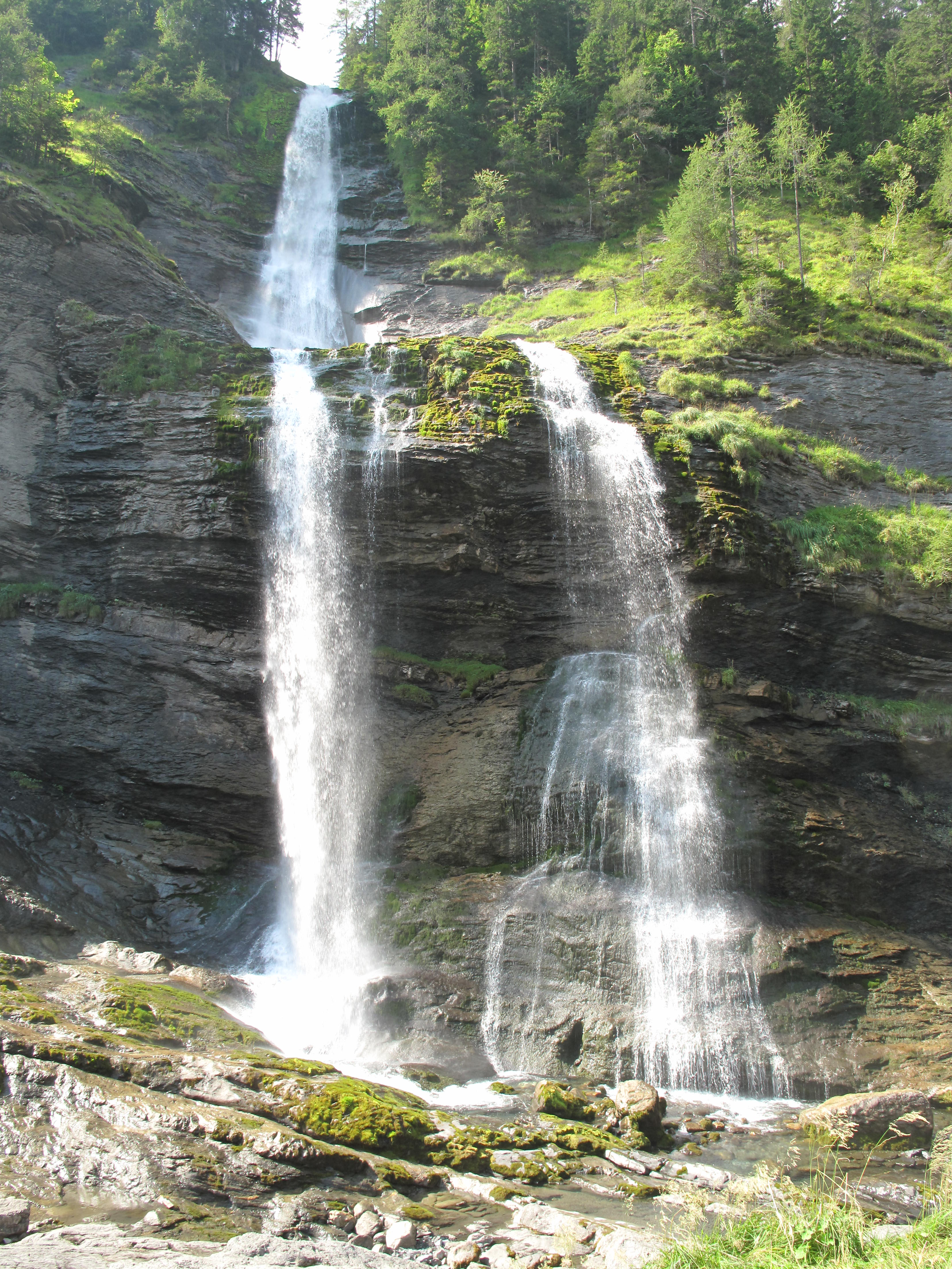 Water fall of le Rouget near Sixt-Fer-à-Cheval (Haute-Savoie, France).